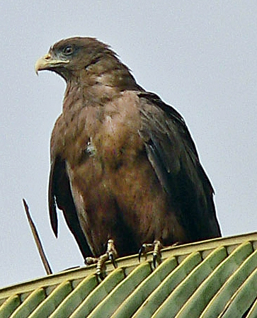 Yellow-billed kite photographed in Dakar, Senegal.